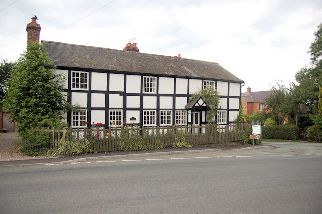 Black and White Cottage at Chirbury